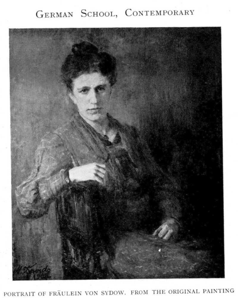 1905 print after page of Women painters of the world, from the time of Caterina Vigri, 1413-1463, to Rosa Bonheur and the present day, by Walter Shaw Sparrow, The Art and Life Library, Hodder & Stoughton, 27 Paternoster Row, London